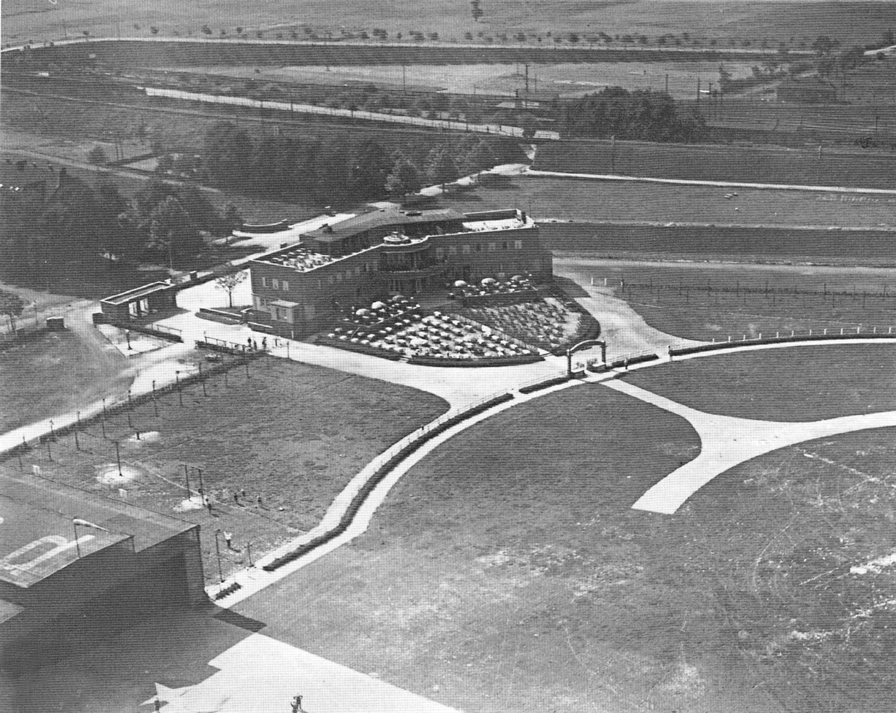 Dortmund airport, location Brackel (1927)